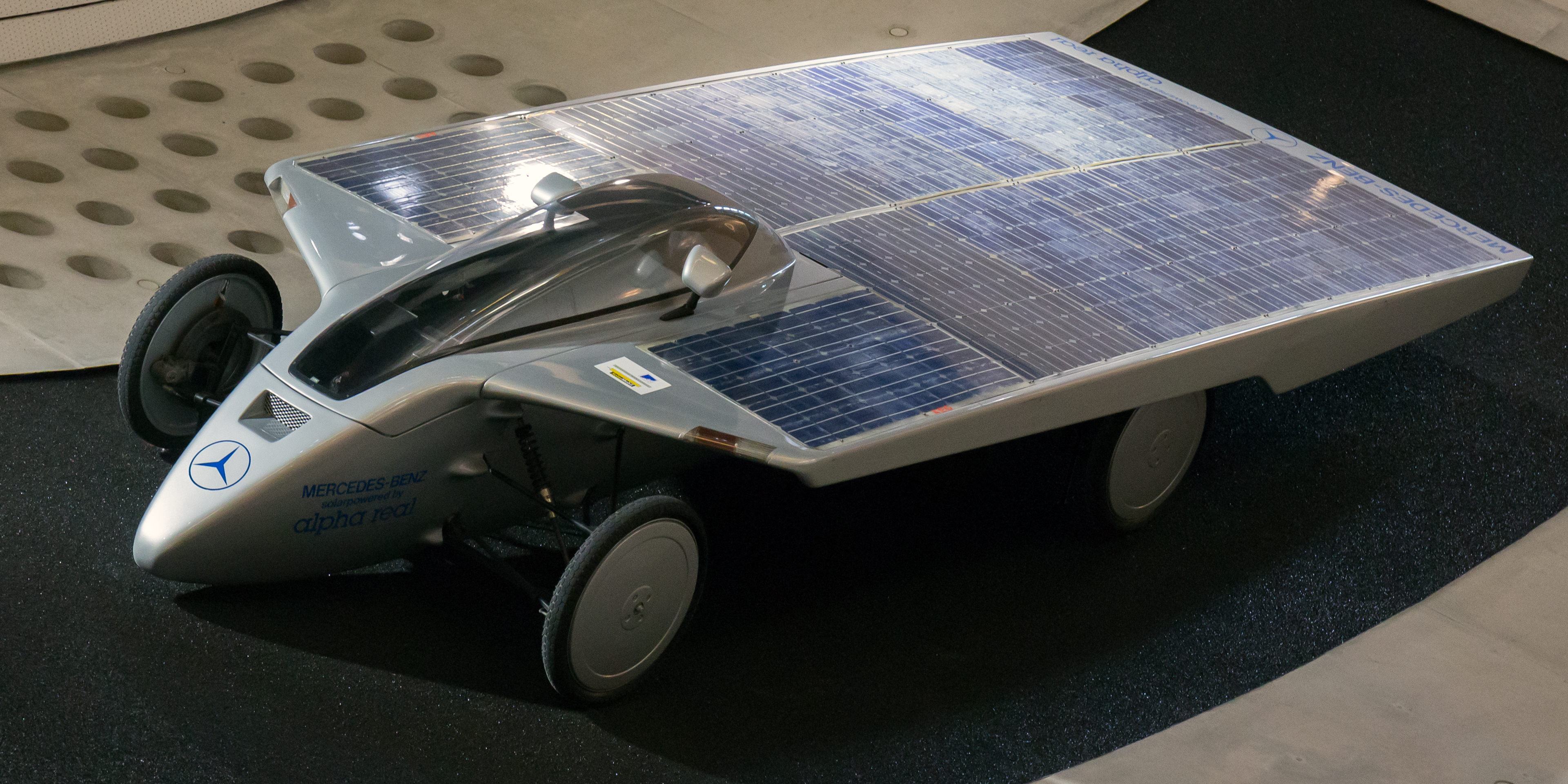 1985 Mercedes-Benz/Alpha Real "Tour de Sol" Solarmobile; built for the 1985 Trou de Sol Centennial Rally, solar car race from Lake Constance to Lake Geneva.